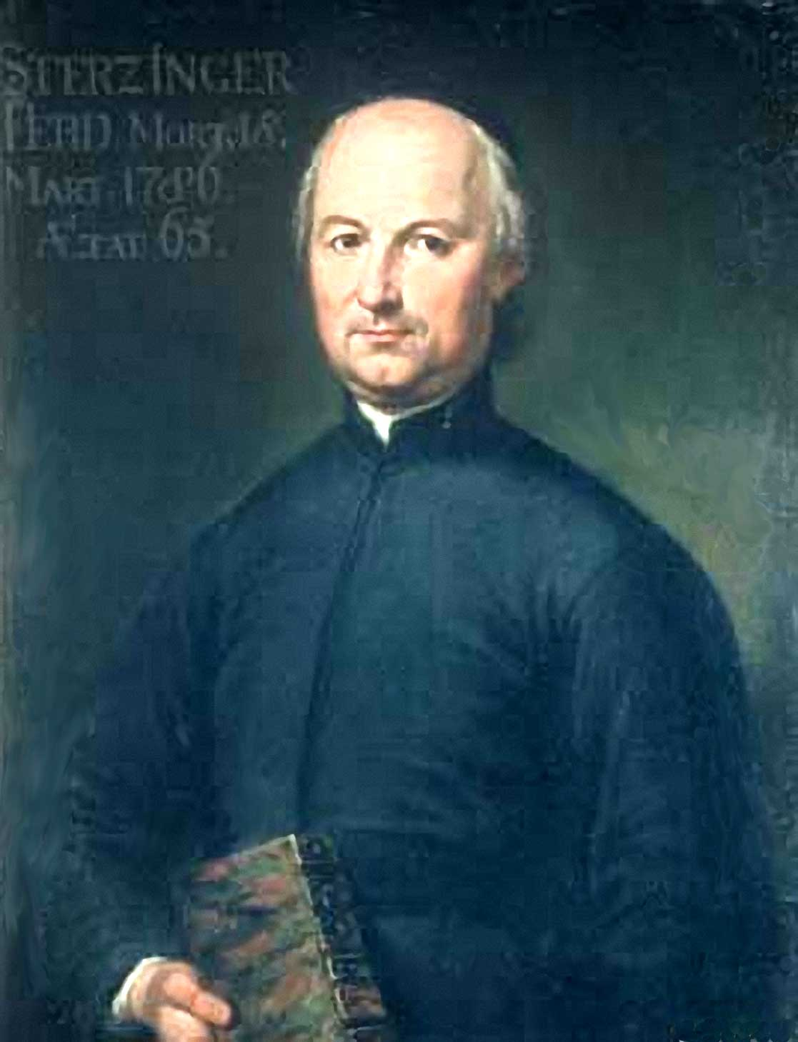 Ferdinand von Sterzinger (1721-1786) austrian katholik